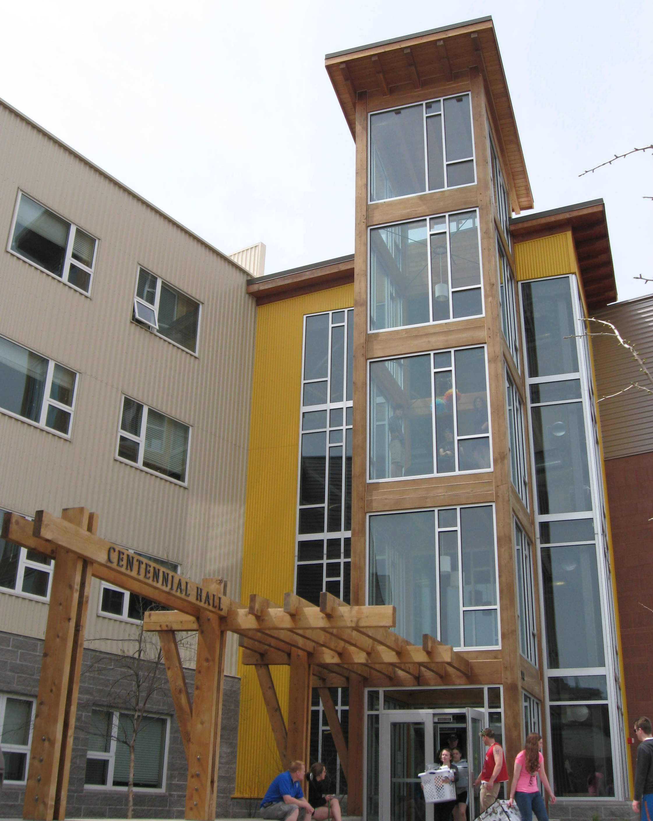 SUNY-ESF Centennial Hall, May 2014